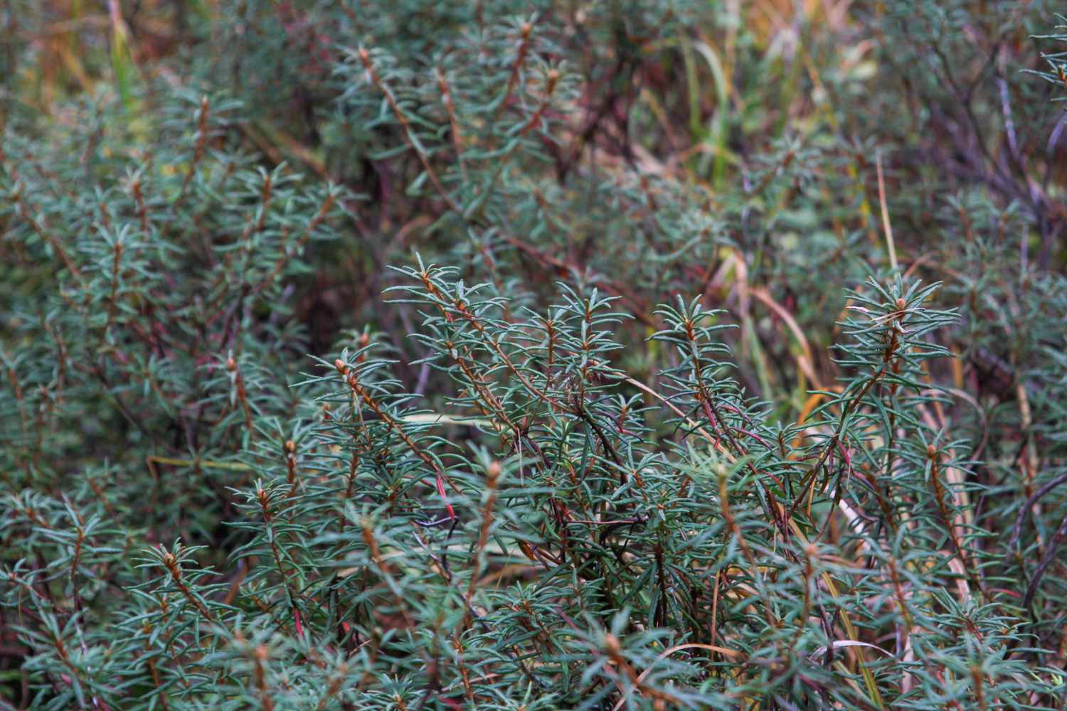 Ledum palustre in natural monument Hofberg in Bohemian Switzerland.